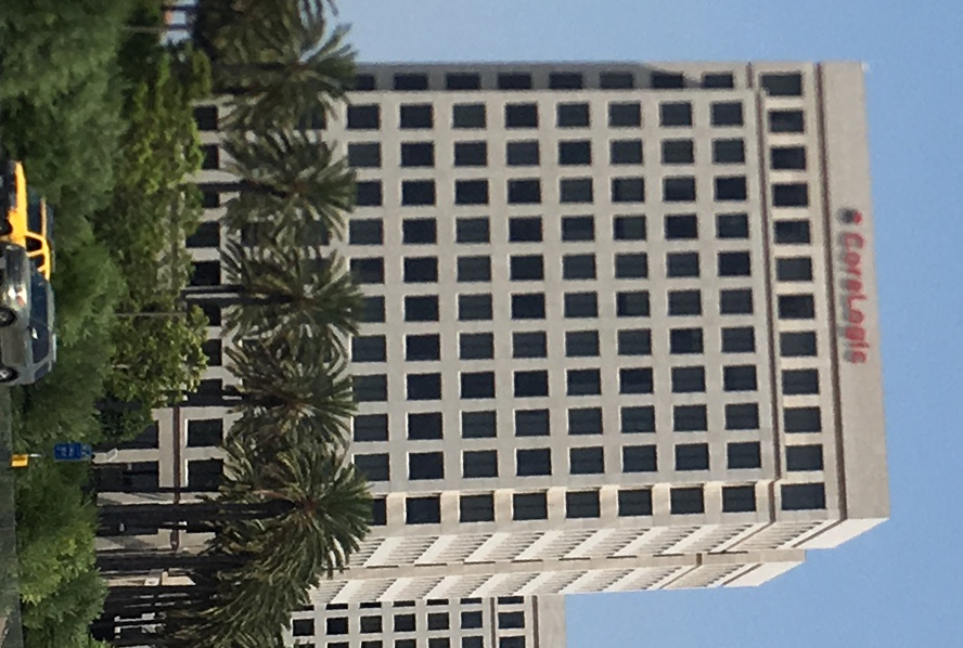 This is a photo I took of the CoreLogic corporate headquarters in Irvine, CA